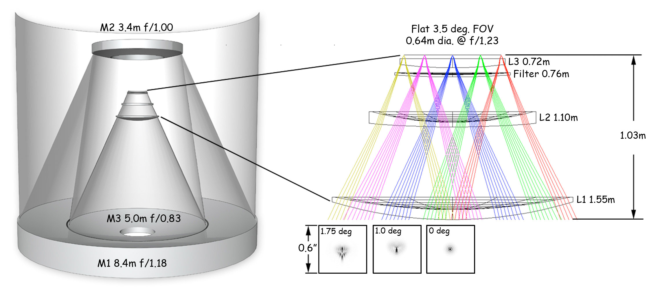 Optics of the LSST Telescope. License from original source is at